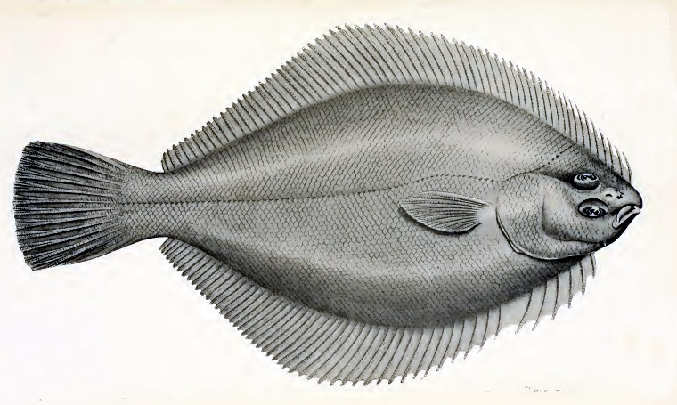 Rhombosolea tapirina Günther, 1862; family Pleuronectidae; Australia